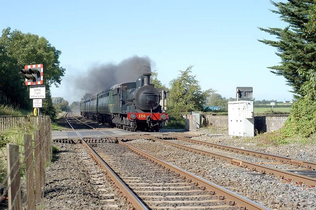 Steam passing Drumbane Crossing GSWR 186 passing Drumbane Crossing with the Portadown to Lisburn RPSI Special "When Country comes to Town"